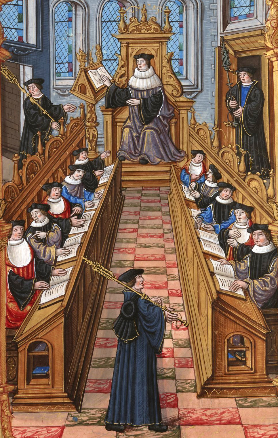 A meeting of doctors at the university of Paris. From a medieval manuscript of "Chants royaux". Bibliothèque Nationale, Paris.